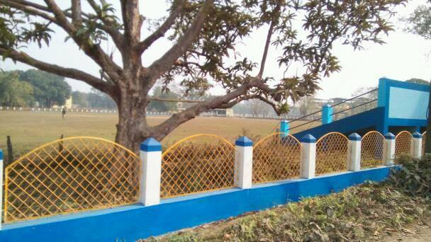 Oval Cricket Stadium of JGEC